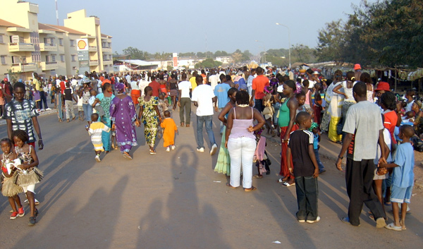 carnival